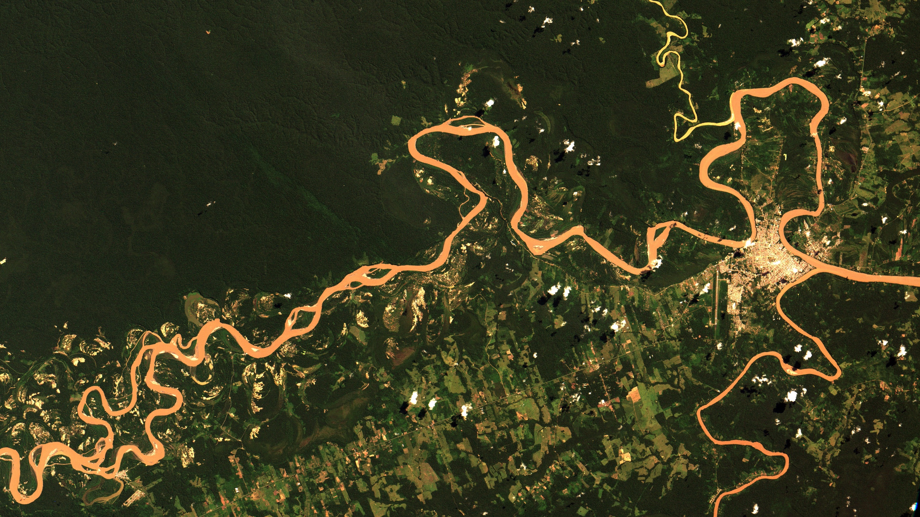 Puerto Maldonado, Peru, at Tambopata River mouth on Madre de Dios River, crossing image from left to right, both appearing in light brown, belonging to the Amazon Basin. Urban area in whiteish saltpepper. Forest in dark green, agriculture in light green, mostly extensive cattle ranching. Clouds in white, with its shadows in black.